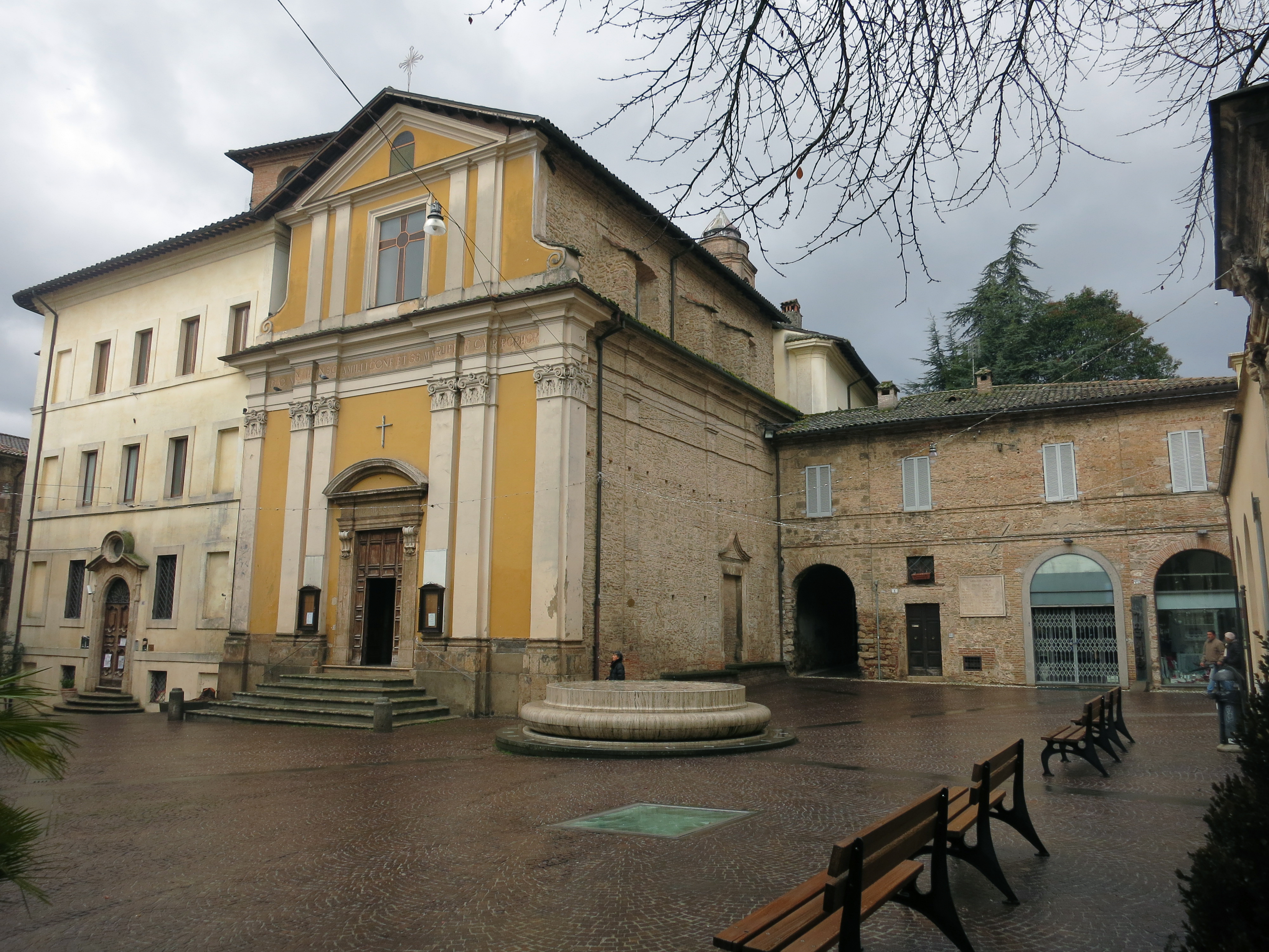 San Rufo square, the center of Italy - Rieti, Lazio, Italy